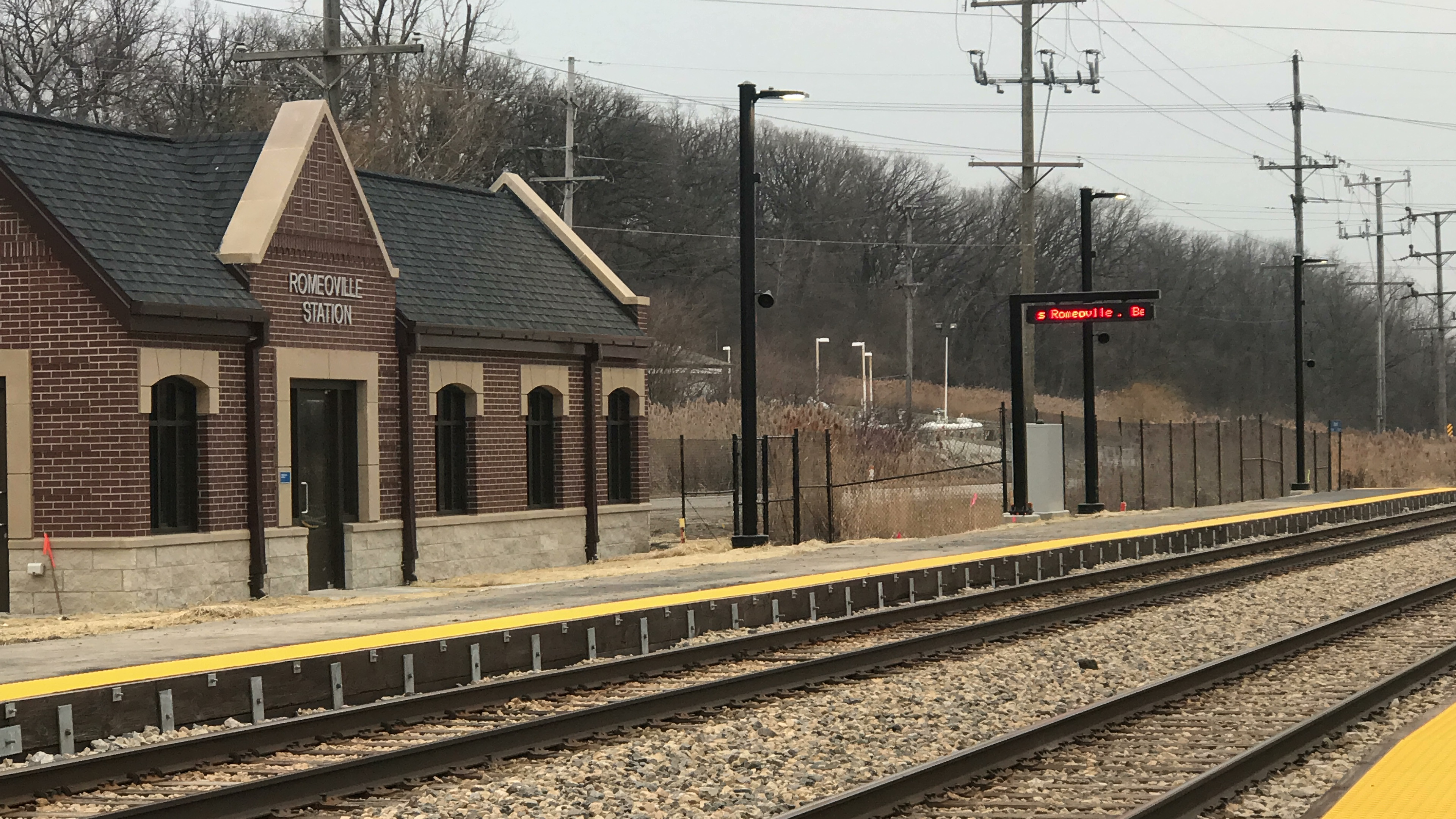 Romeoville Metra Station in early 2018 prior to the official opening.